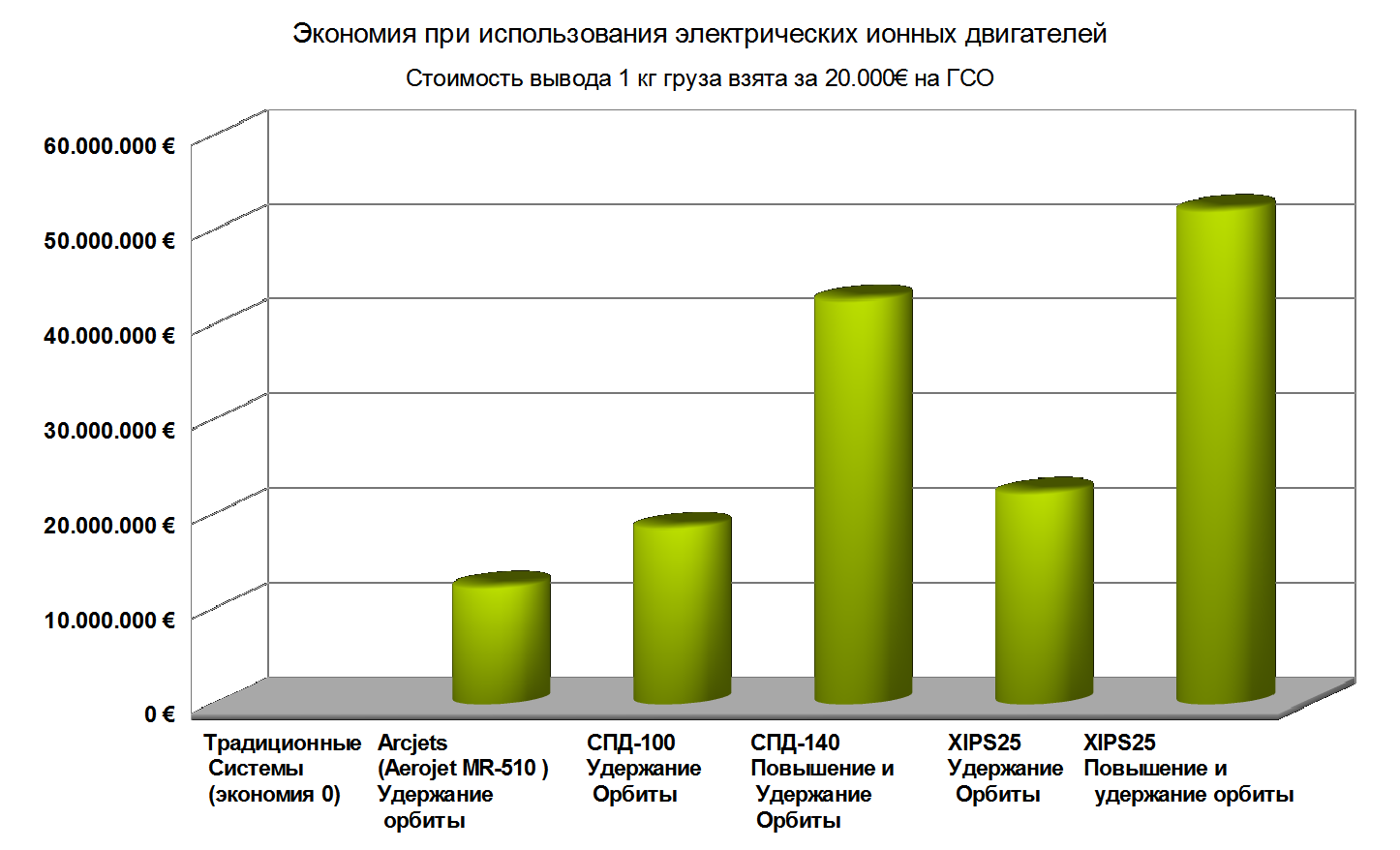 Savings using electric propulsion on commercial satcoms